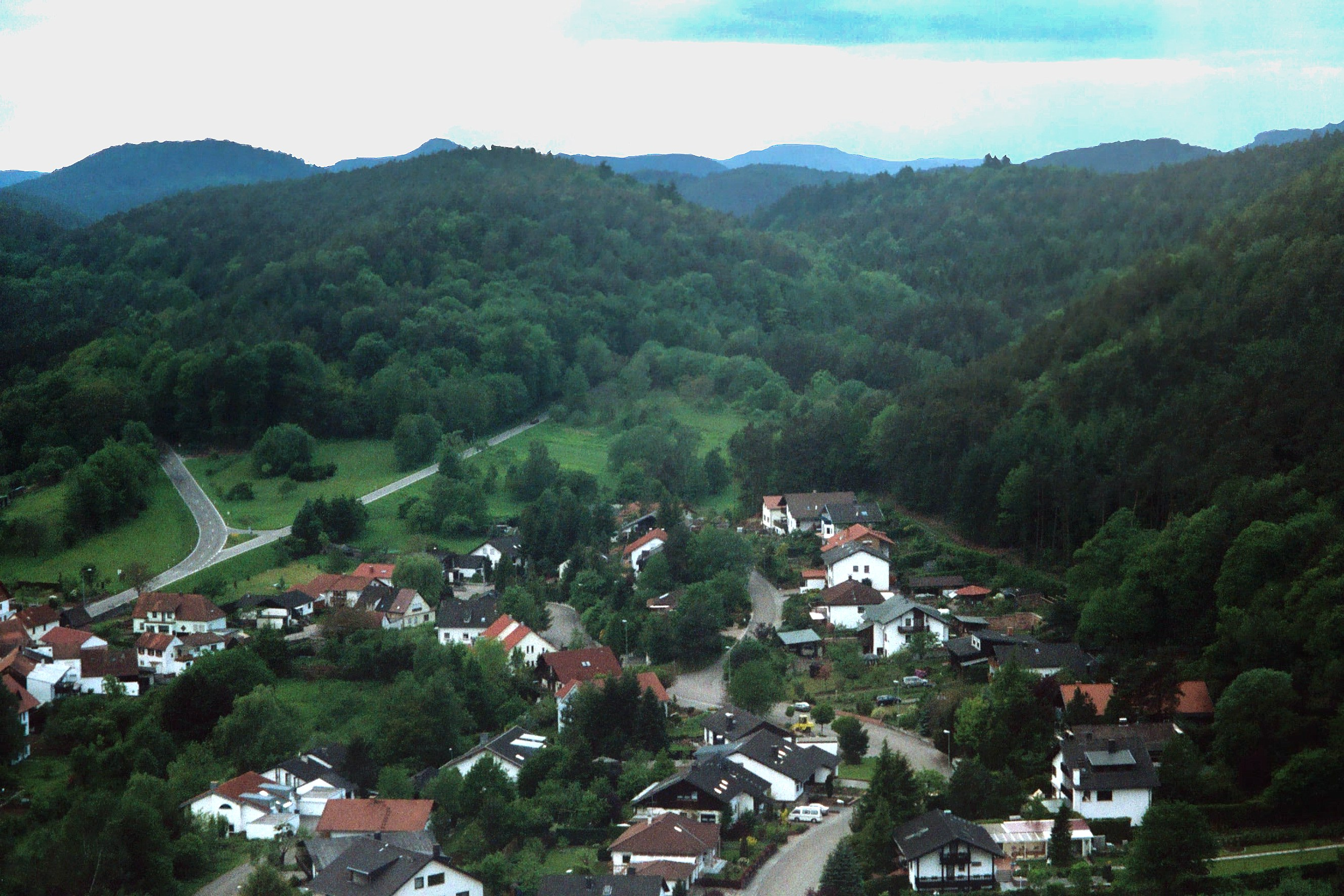 Birkenhördt, view from the Friedenskapelle to the village